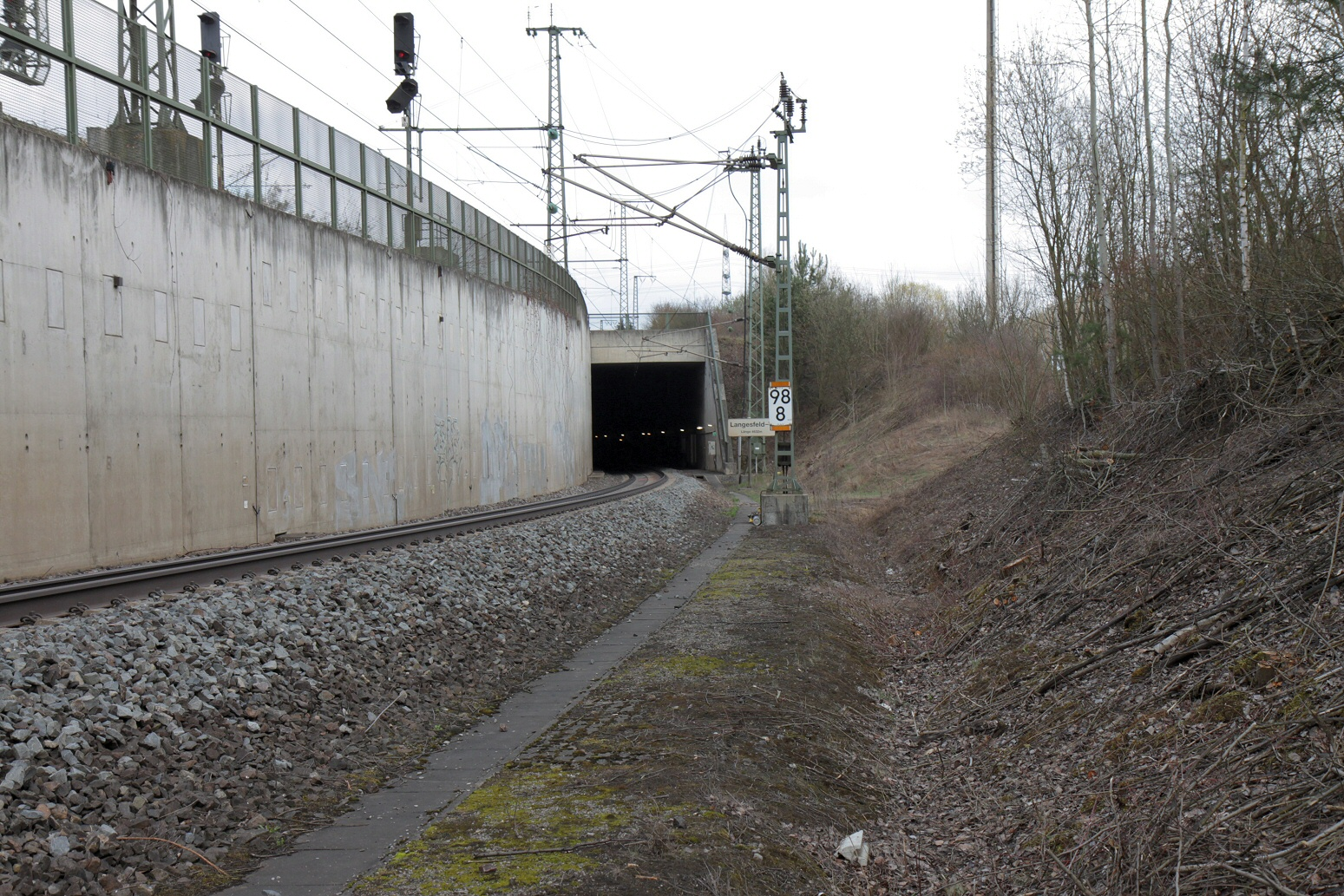 Southeastern entrance III of the Tunnel Langes Feld, part of the high-speed railway line Mannheim-Stuttgart